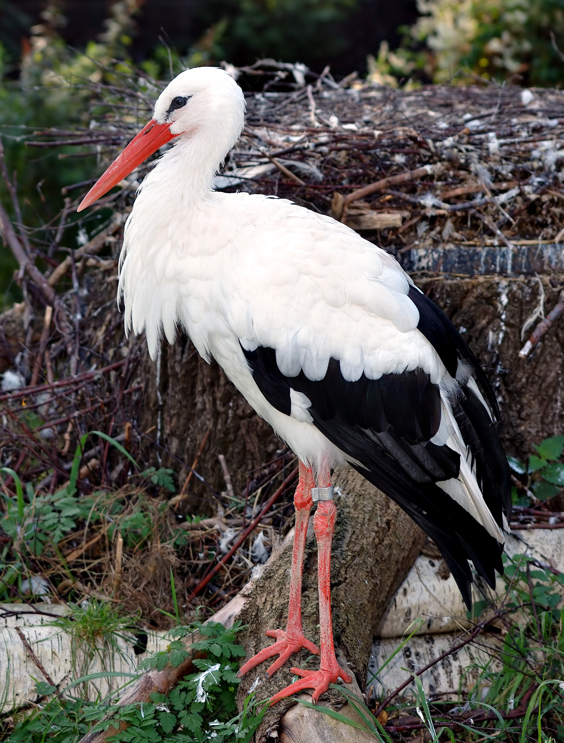 This image shows a White Stork (Ciconia ciconia ciconia).